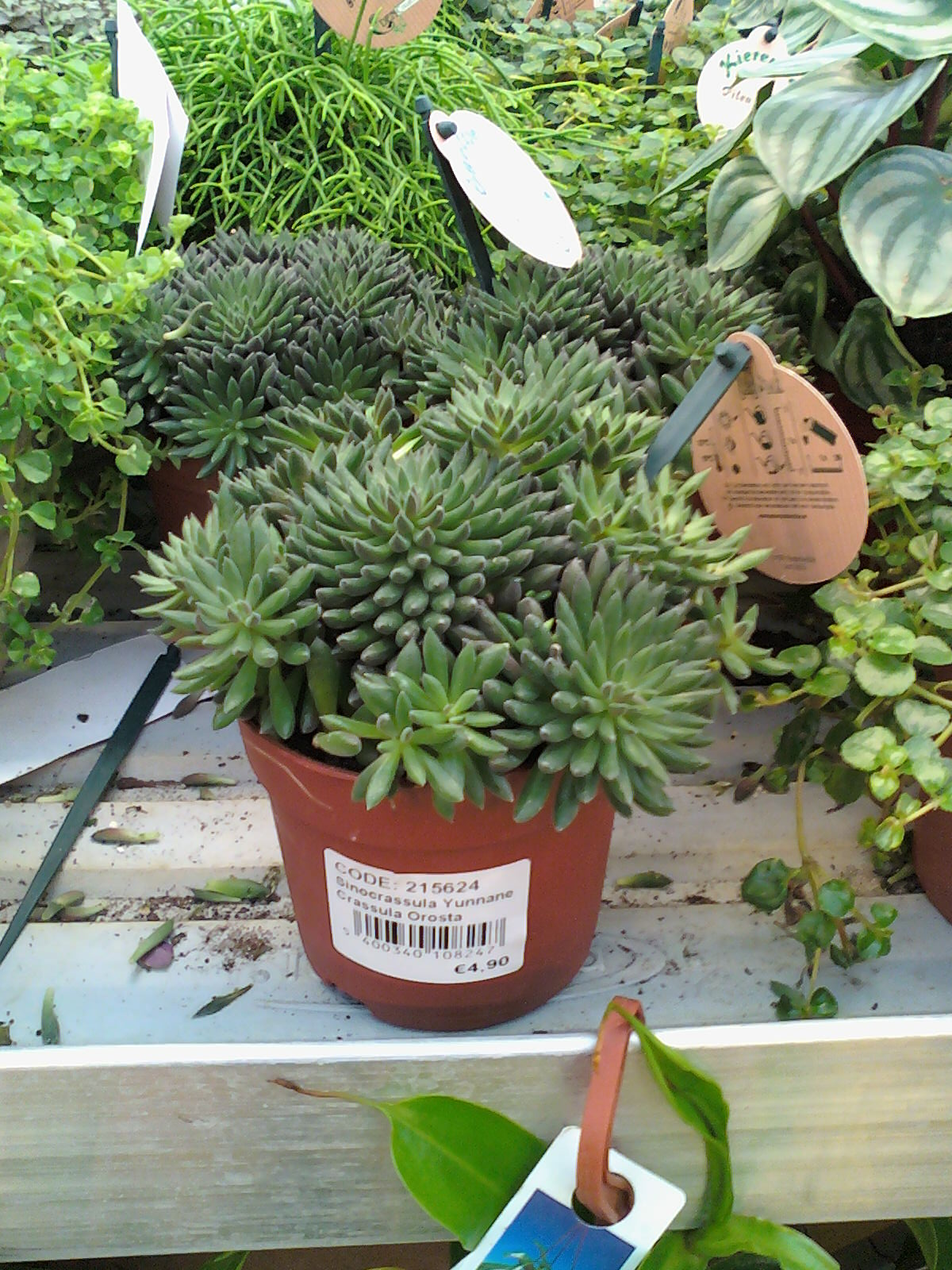 Sinocrassula yunnanensis in a garden centre in France. Identified by botanic label.